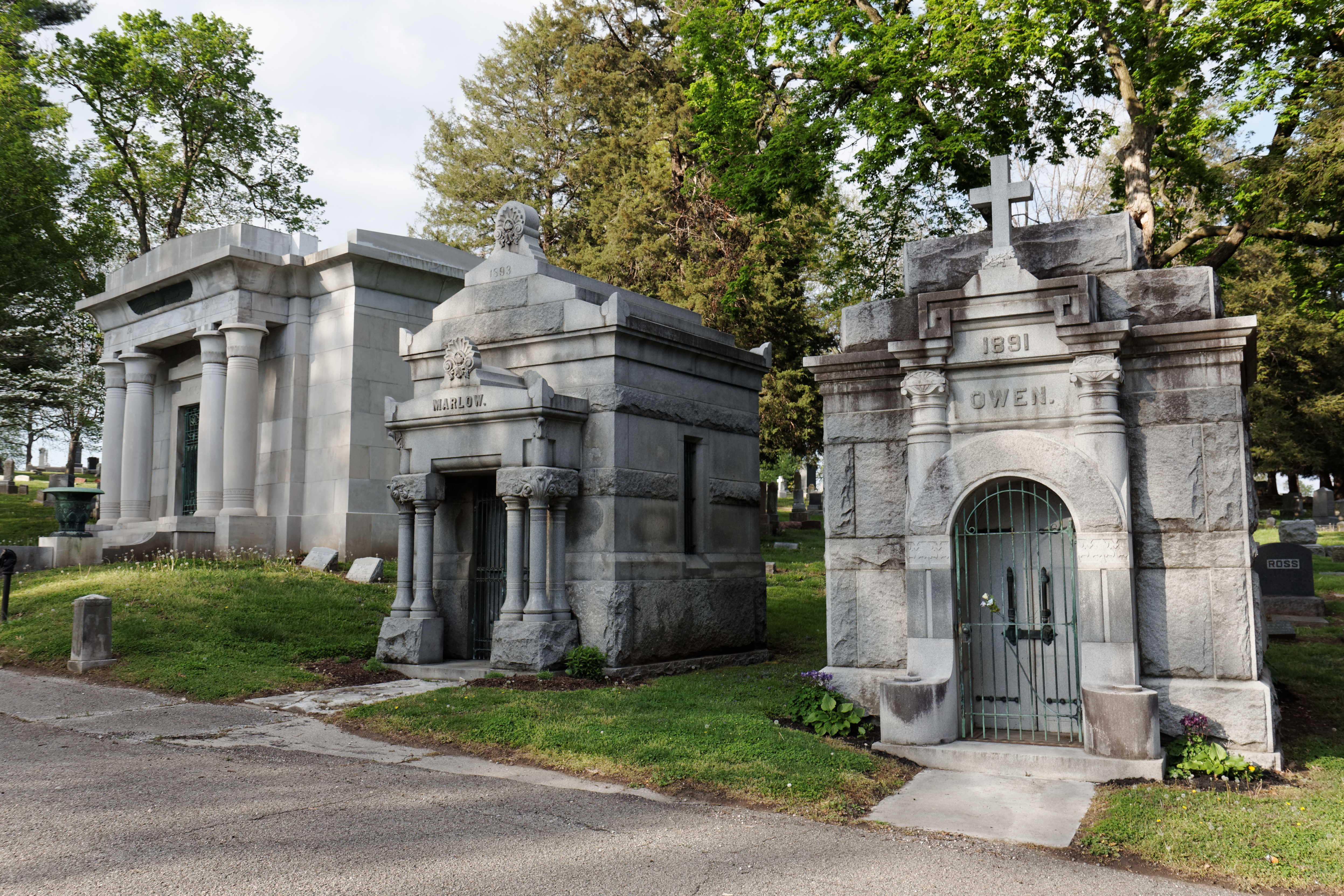 Mt. Mora St. Joseph, MO